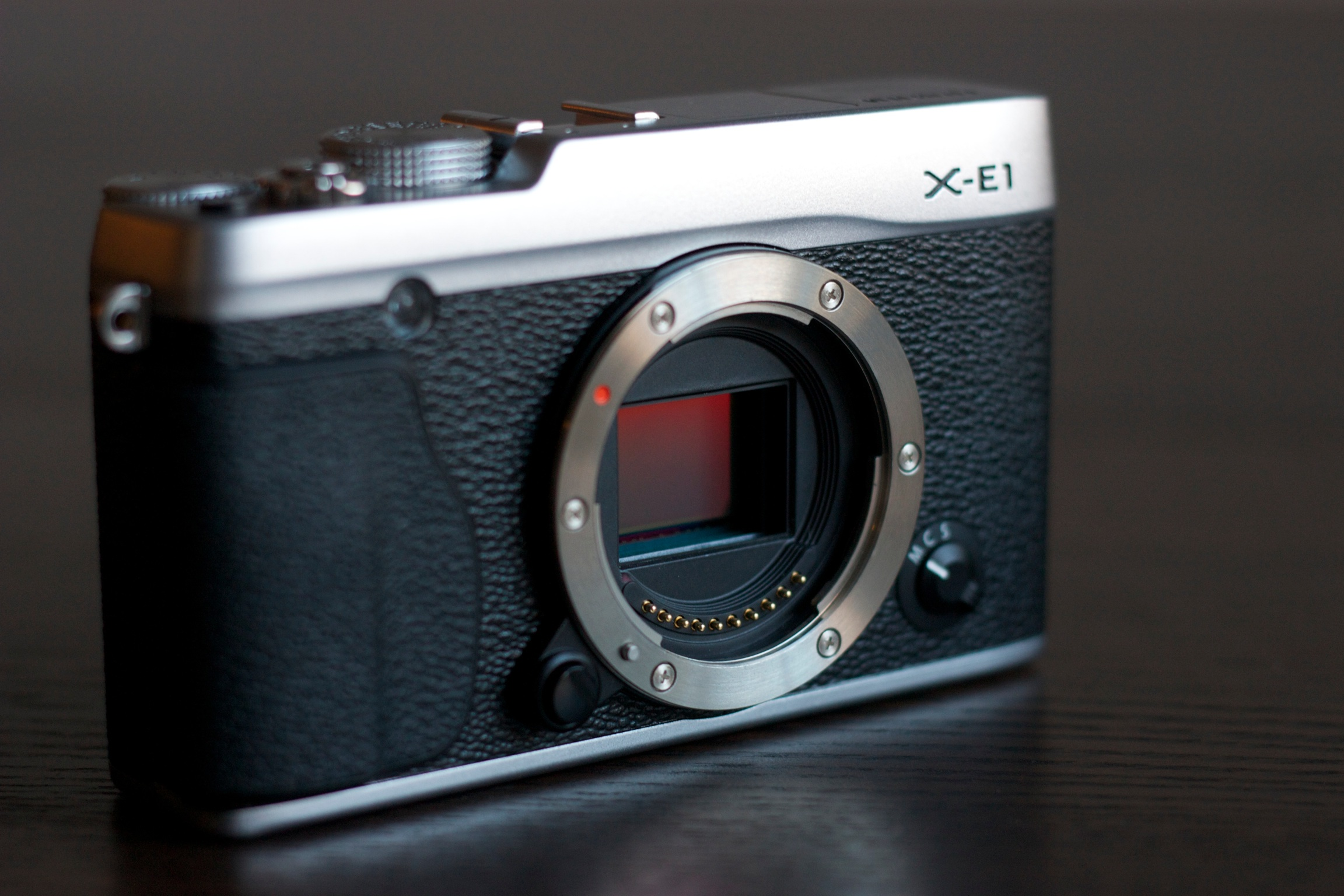 Fujifilm's X-E1 is a mirrorless interchangeable lens camera with Fuji's unique X-Trans sensor. The camera body is shown here without a lens, exposing the sensor, which has a 1.5 crop factor compared to a "full frame" 35mm film size sensor.